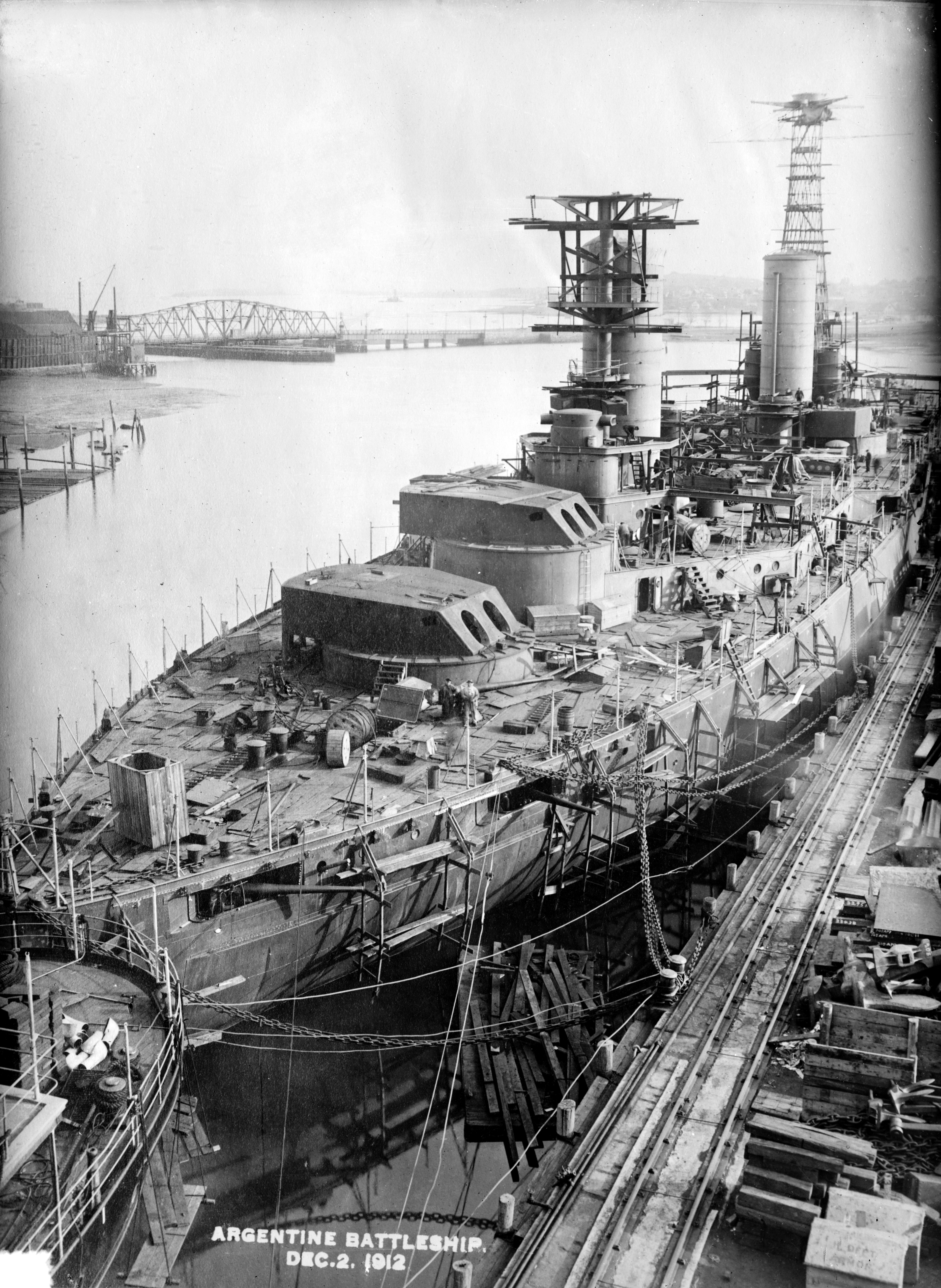 Argentine battleship of the Rivadavia class shown under construction at the Fore River Shipyard in Quincy, Massachusetts.